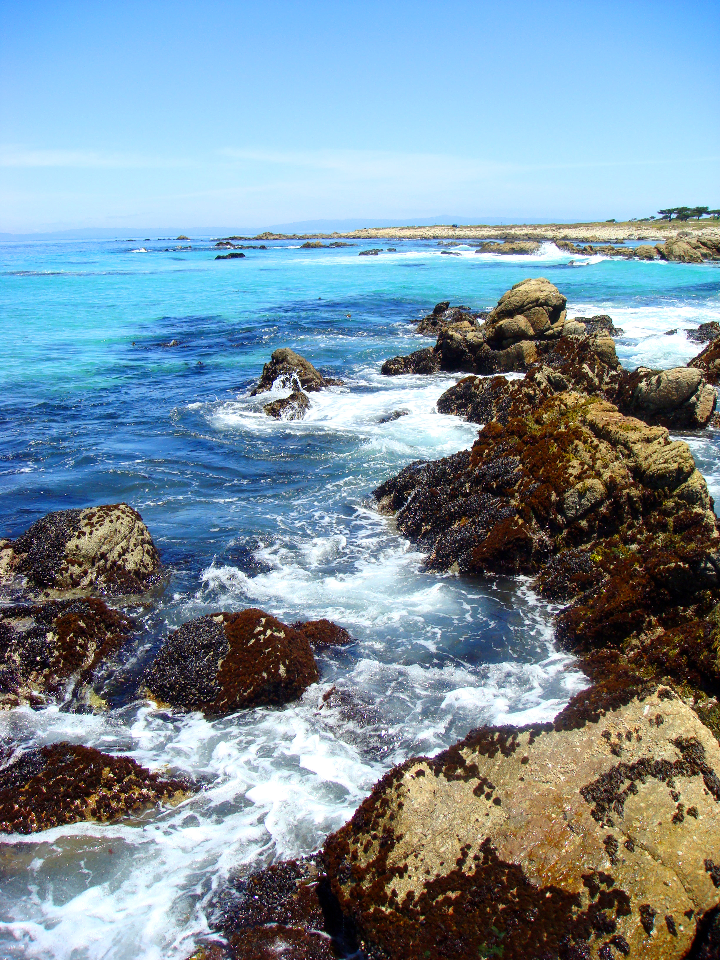 Near Bird Rock of the Starboard Trail, Pebble Beach, Calfornia.